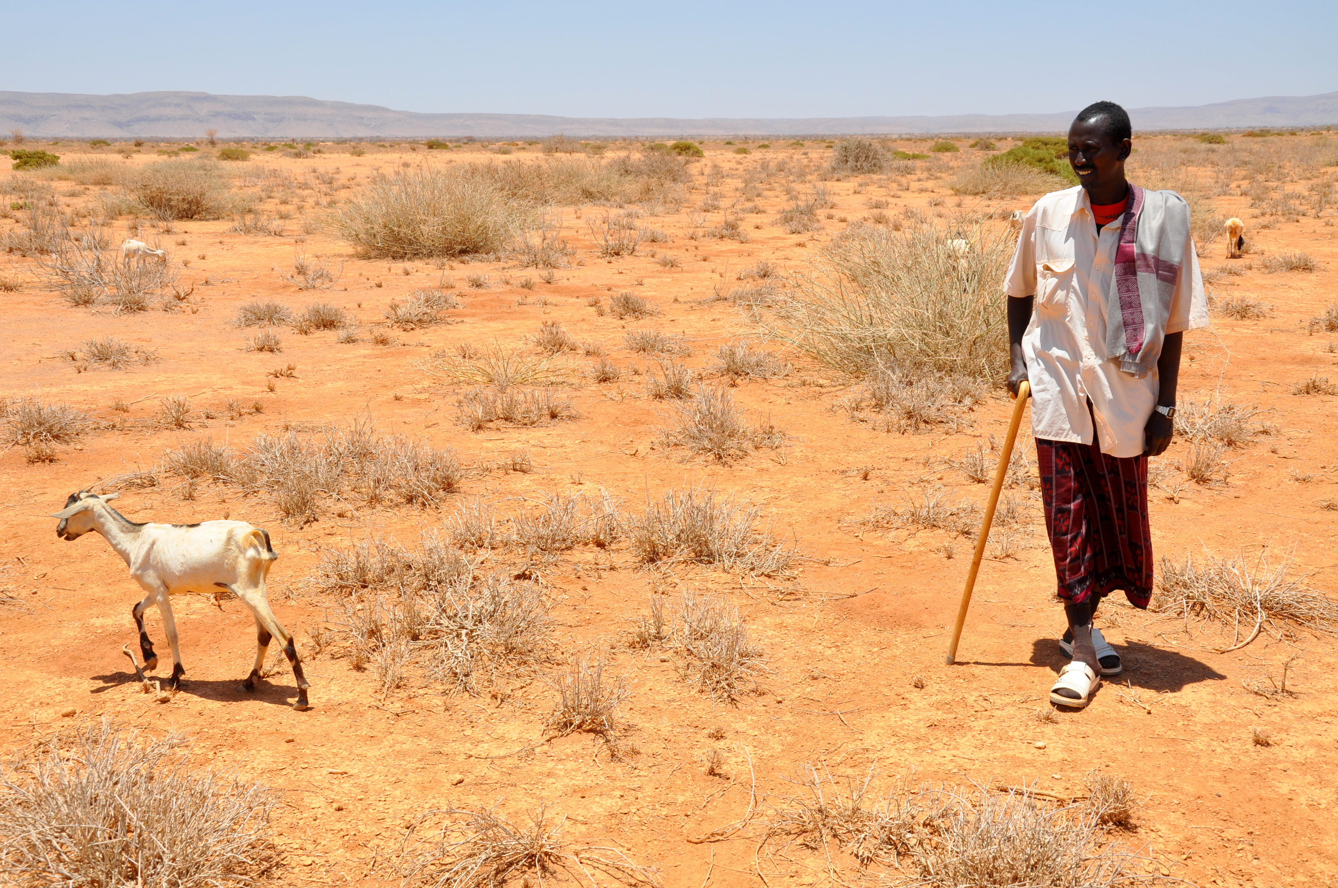 Aden Jama takes one of his few remaining goats out to look for pasture. As the drought has worsened he and his family have lost many of their animals and had to move closer to the village and the water trucking site. “Before the drought I had 220 sheep and goats and 12 camels. Now I have 40 sheep and goats and three camels left. The rest have died from the lack of water and pasture. “We used to live 10kms away and come to the village when we needed things. But we’ve had to move closer and closer as the livestock are getting weaker and can’t travel so far. “This is the first time we’ve seen this scale – in the last drought a few animals died but most survived. Now they are so weak that if it rains heavily it might kill them – we will have to shelter them in the house or they would die in the rain. “Our lives depend on our livestock – we have no other skills and there are no other jobs. “In the past the children had milk from the animals. Now they have nothing. They are still ok for now, but you can see them getting weaker. It is almost six months since they ate meat or vegetables. Relatives send us food – we mainly eat rice twice a day, and sometimes maize, tea, flour and bread.”